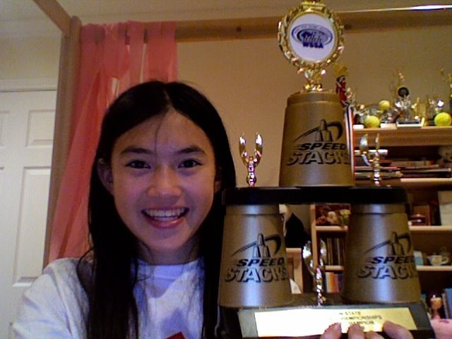 Rachael Nedrow, 15 year old Sport Stacker with a trophy from the 2009 Oregon Sport Stacking Championships.